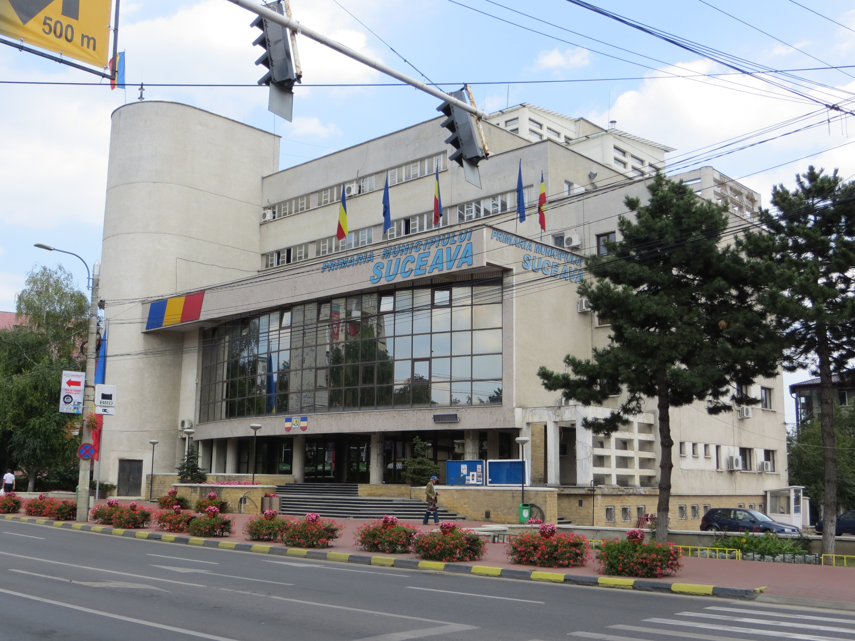 Suceava City Hall.